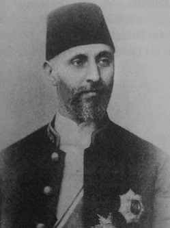 Ahmet Tevfik Pasha, last Grand Vizier of the Ottoman Empire (date c. 1895)